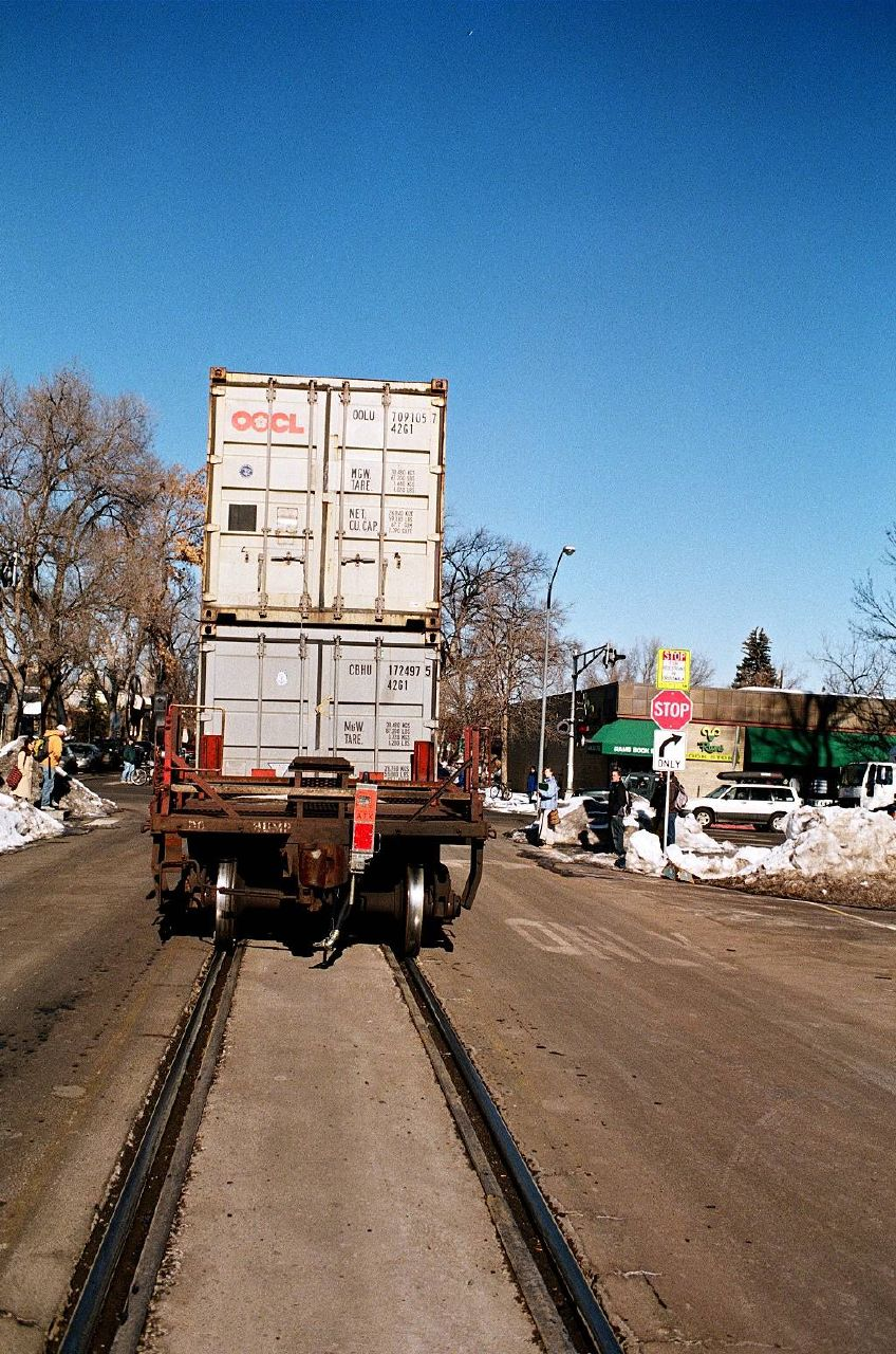 North bound train leaving the CSU campus.